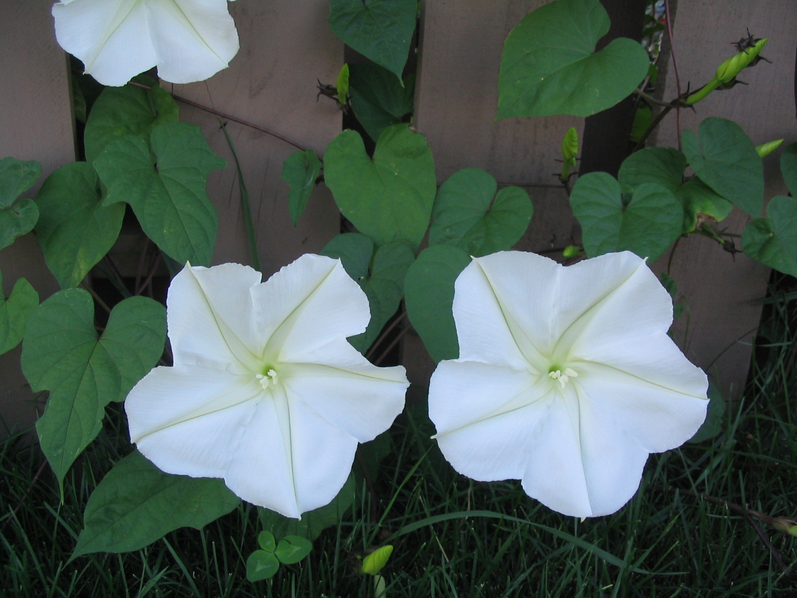 A stand of Ipomoea alba